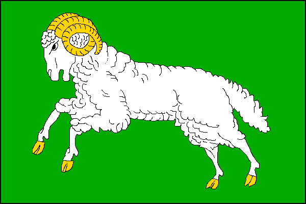 Municipal flag of Počítky village, Žďár nad Sázavou District, Czech Republic.